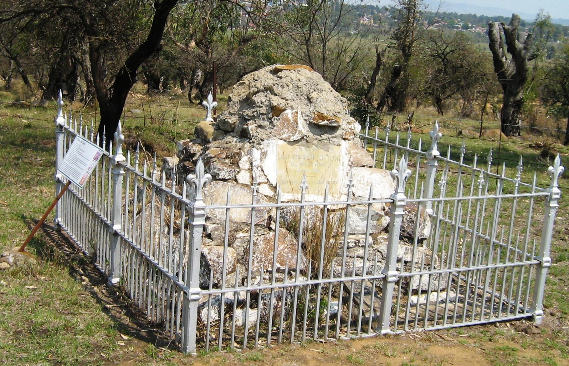 Memorial to Gen Sir William Penn Symons mortally wounded in the battle of Talana 20 October 1899 This media shows a South African Protected Site with SAHRA file reference 9/2/406/0012/2See also: External entry in South African Heritage Resource Agency database.